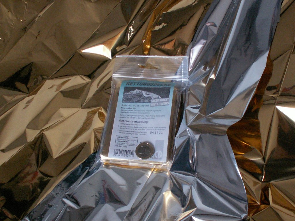 emergency blanket Photographer: Markus Brunner Date:11.11.2005